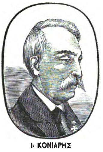 Poikilē stoa: ethnikē eikonographēnenē epetēris ... Etos 1-16, 1881-1914 (1881) Author: Ioannes A. Arsenēs , Michael A . Raphaelobits Volume: 1-2 Publisher: Estia Year: 1881 Possible copyright status: NOT_IN_COPYRIGHT Language: Greek Digitizing sponsor: Google Book from the collections of: Harvard University Collection: americana